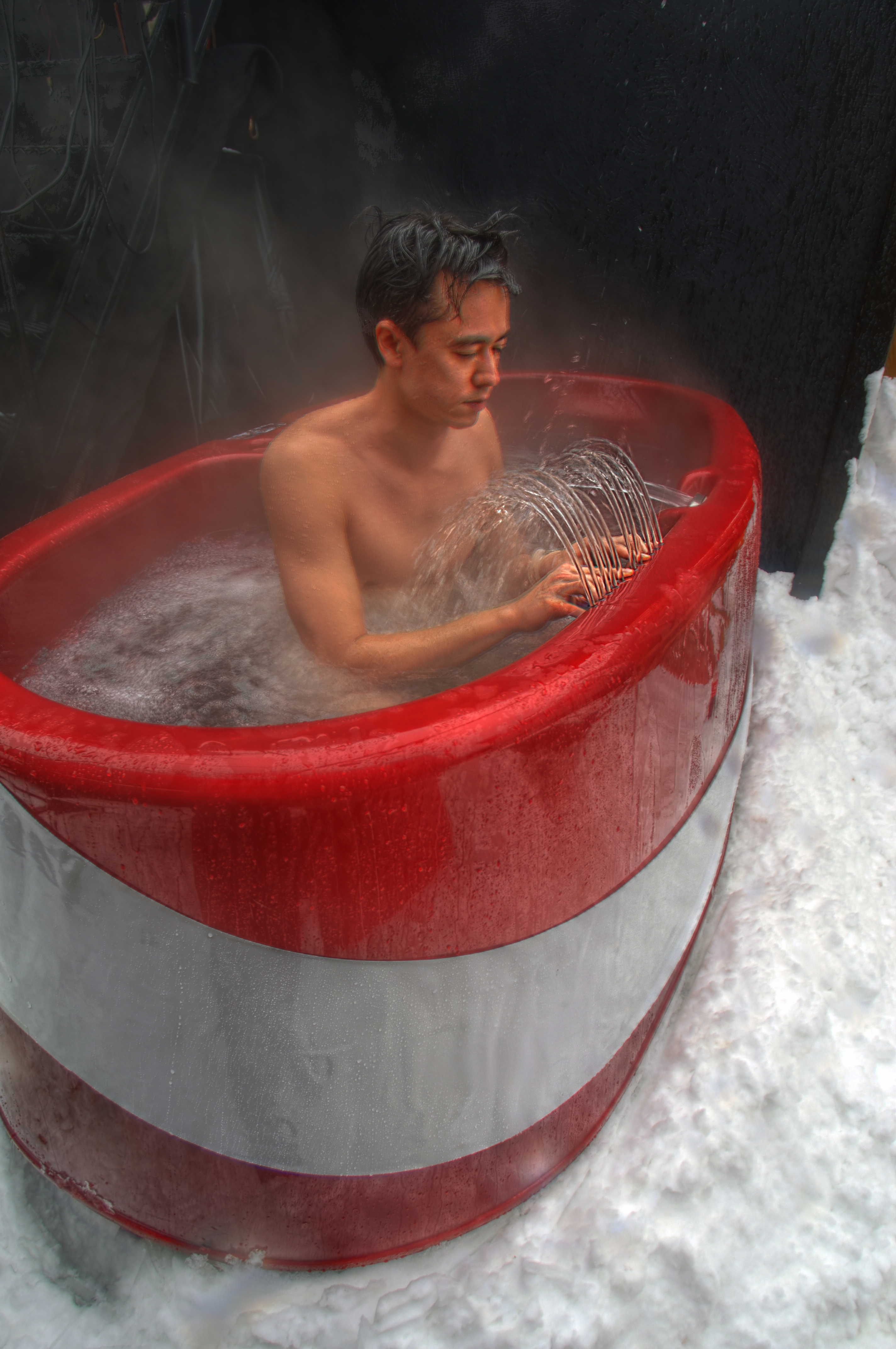 Picture of balnaphone in the snow. I made this from seven exposures spaced one f-stop apart.